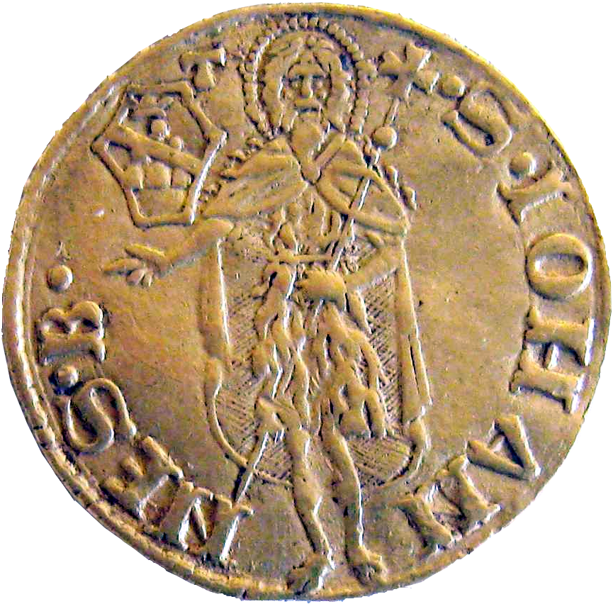 Italian Florin (gold coin), series XXVII, 1462 AD *